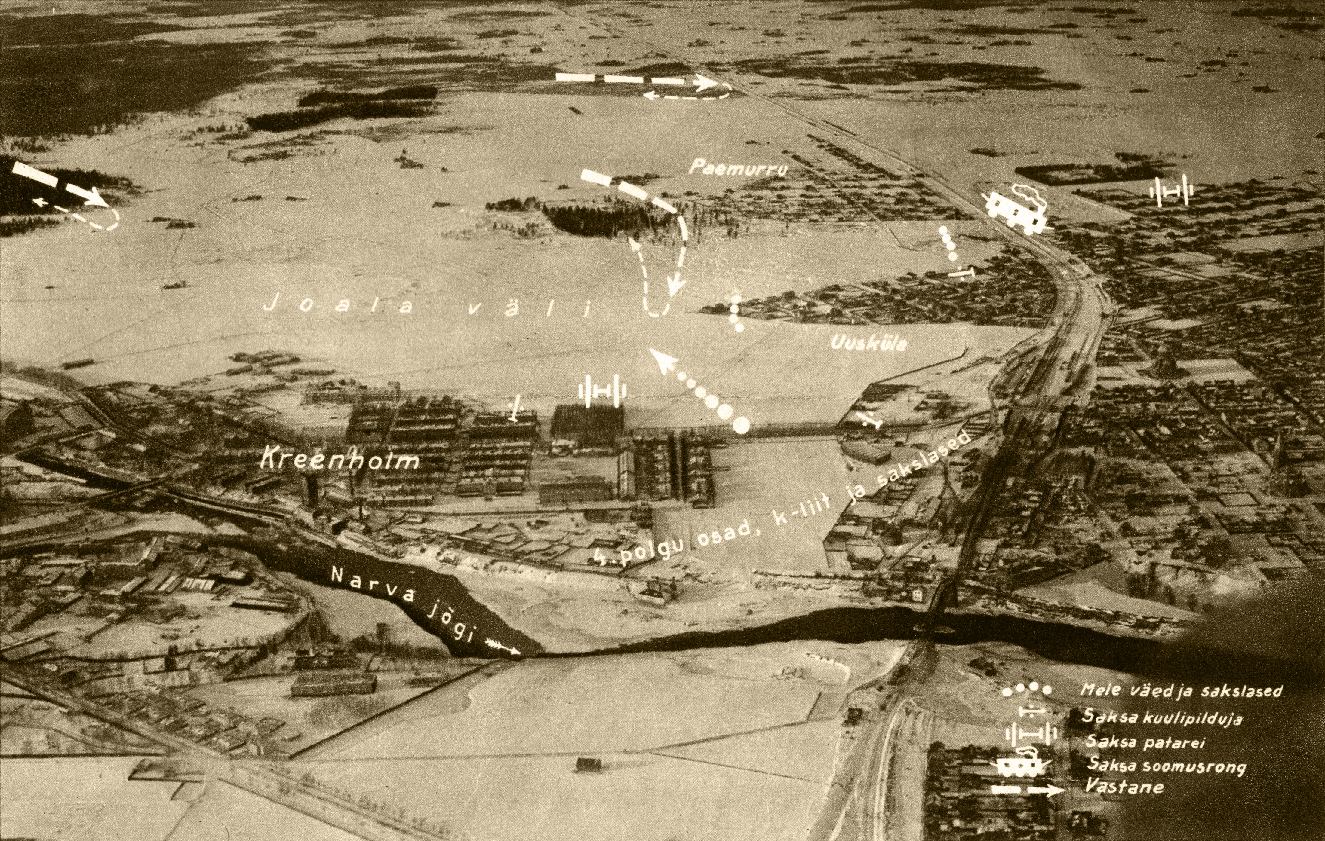 The battlefield of Joala. The battle on 28 November 1918.